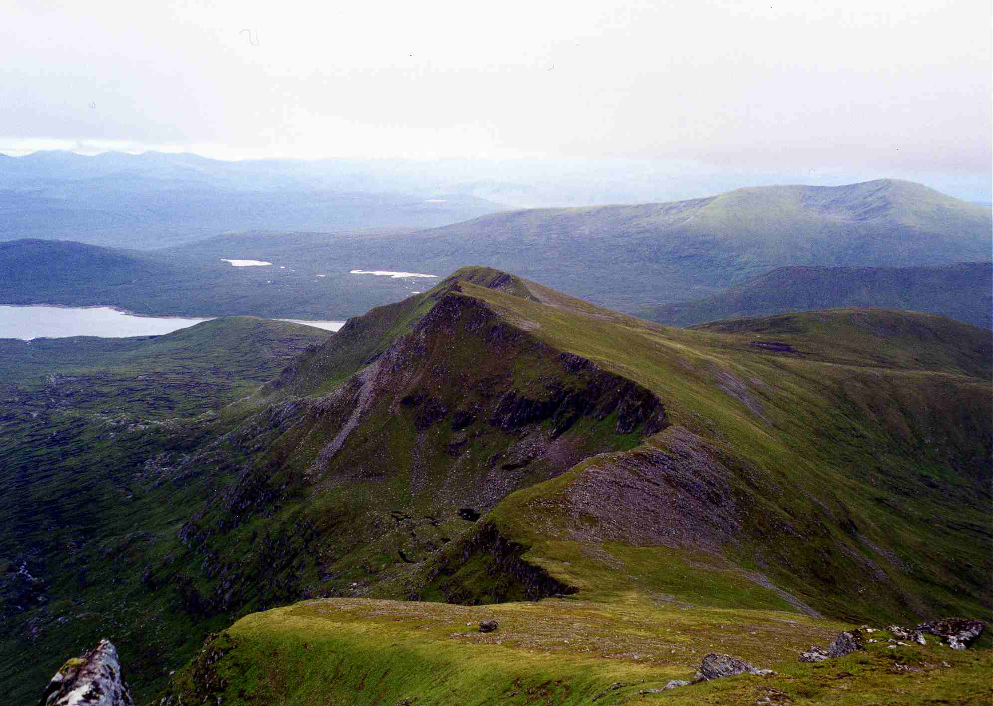 Personal picture taken by Mick Knapton